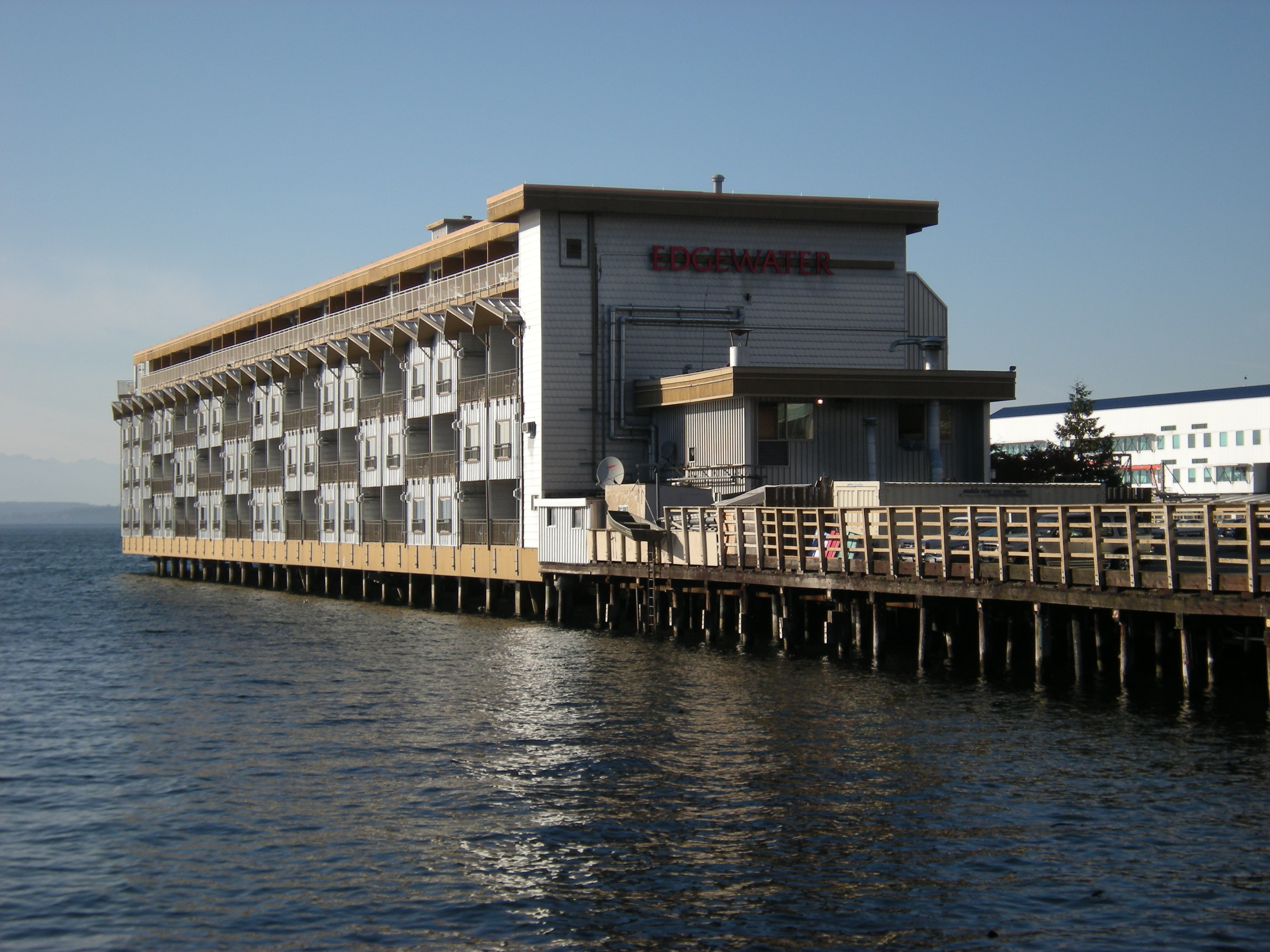 The Edgewater hotel, formerly Edgewater Inn (and originally the Camelot), Pier 67 Seattle, Washington. Built 1962 on the site of the former Galbraith Bacon Pier.